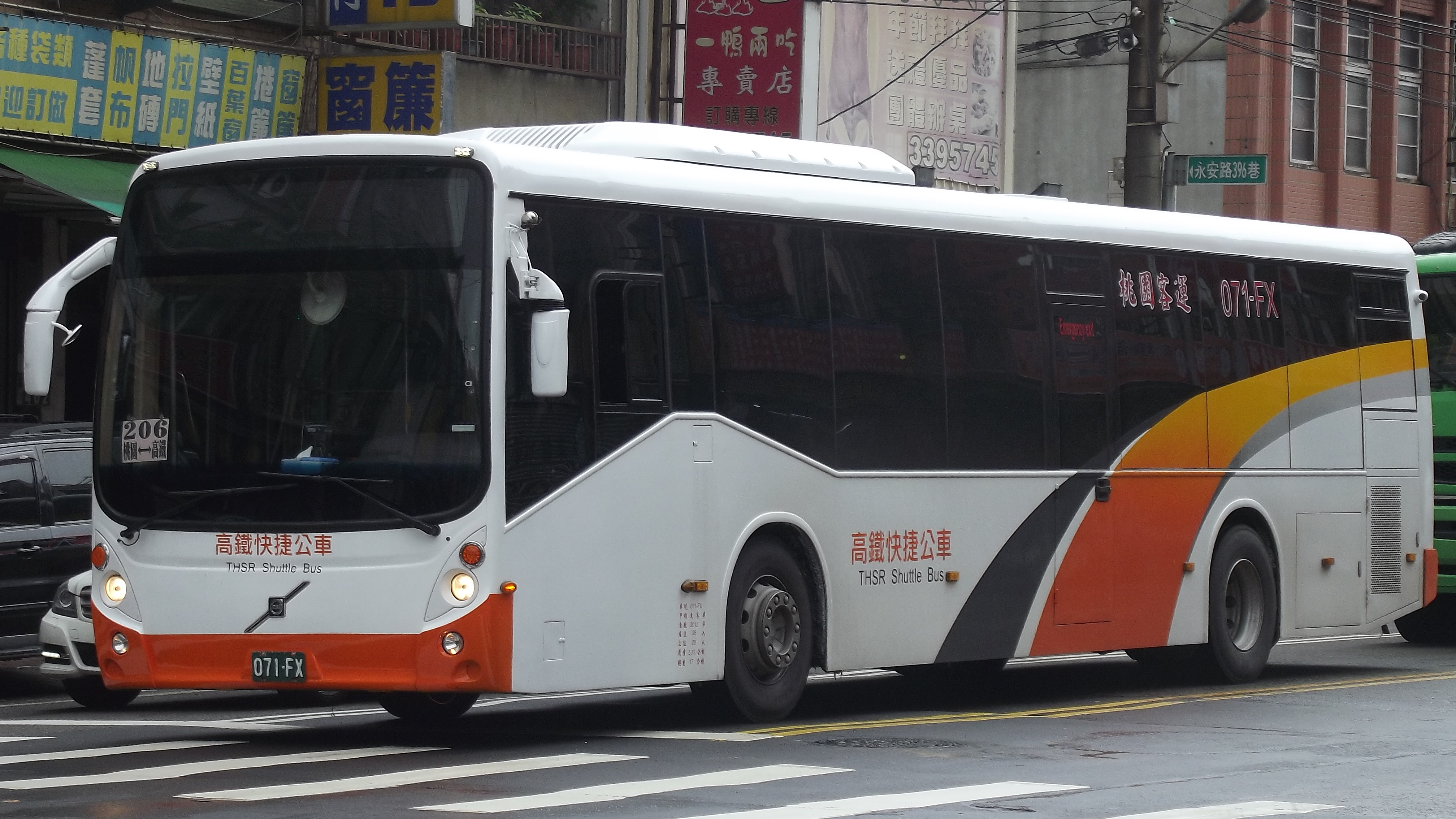 Volvo B7RLE 071-FX of Taoyuan Bus - Route 206, THSR Shuttle Bus.